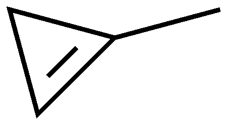 chemical structure of 1-methylcyclopropene (MCP)